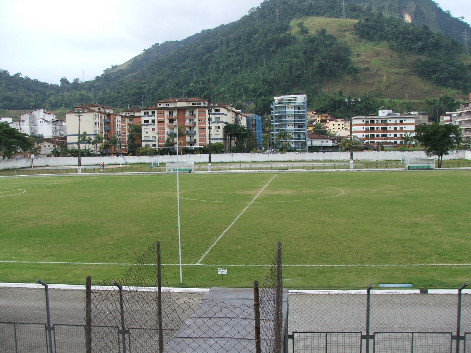 Jair Carneiro Toscano Stadium (Angra dos Reis). Comandante Castelo Branco Street, Jardim Balneário Neighborhood.